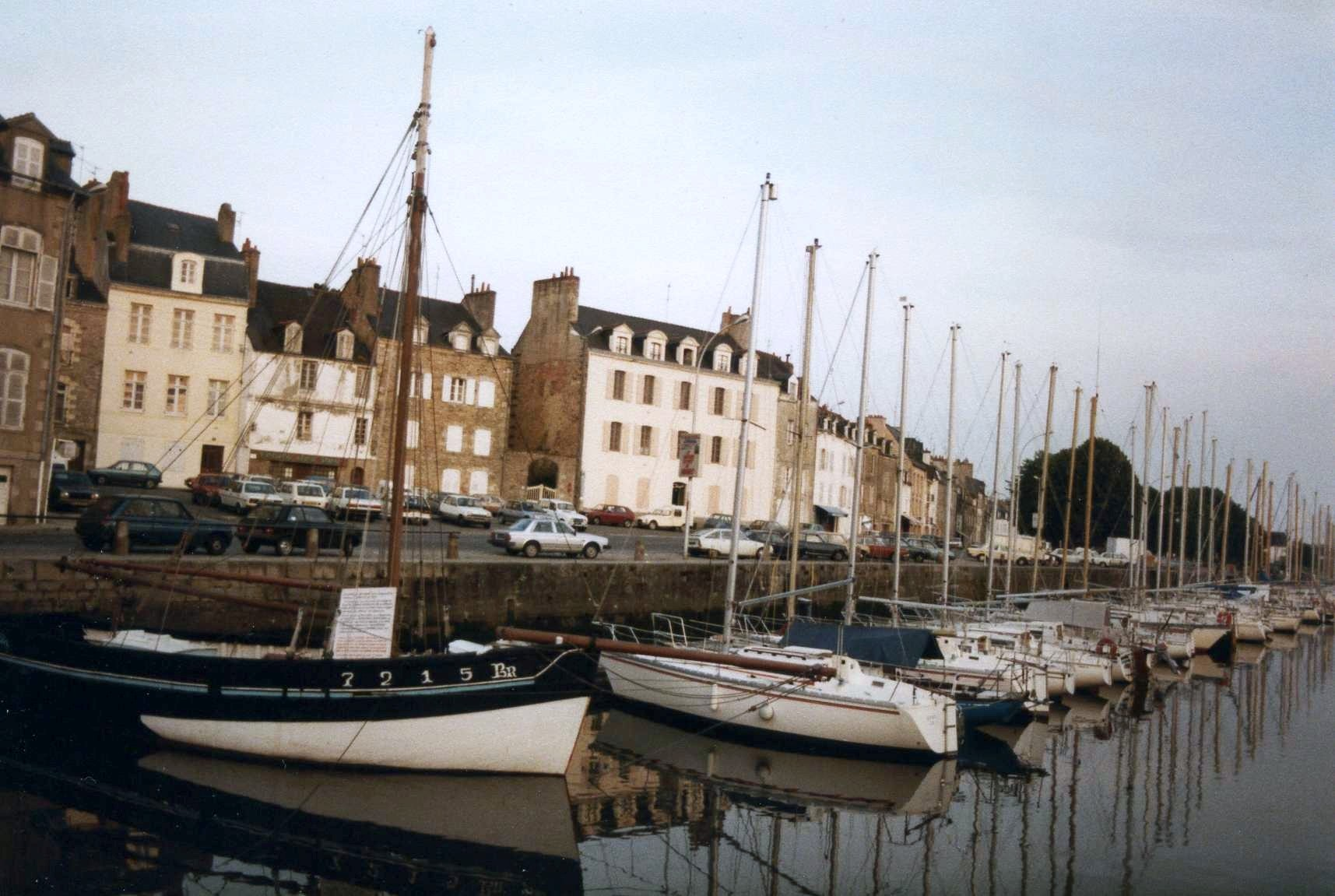 Vannes' marina